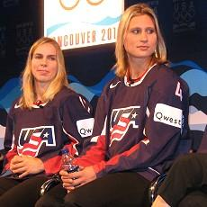 Jenny Potter, left, and Angela Ruggiero during US Women's Hockey press event for the 2010 Winter Olympics.